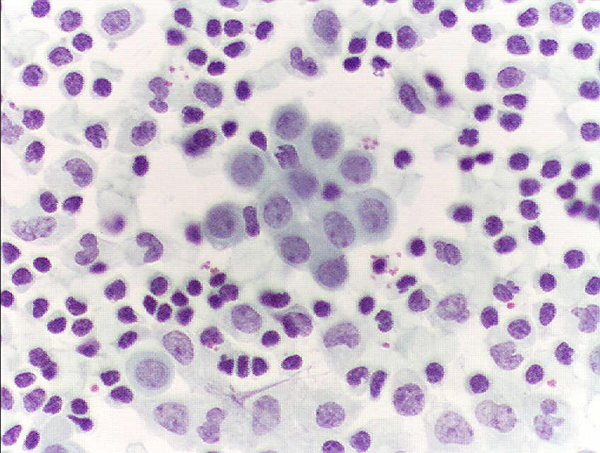 Pleural effusion ccitology, Papanicolau stain, 400x. No atypical cells can be seen (lymphocites, histiocites and mesothelia)